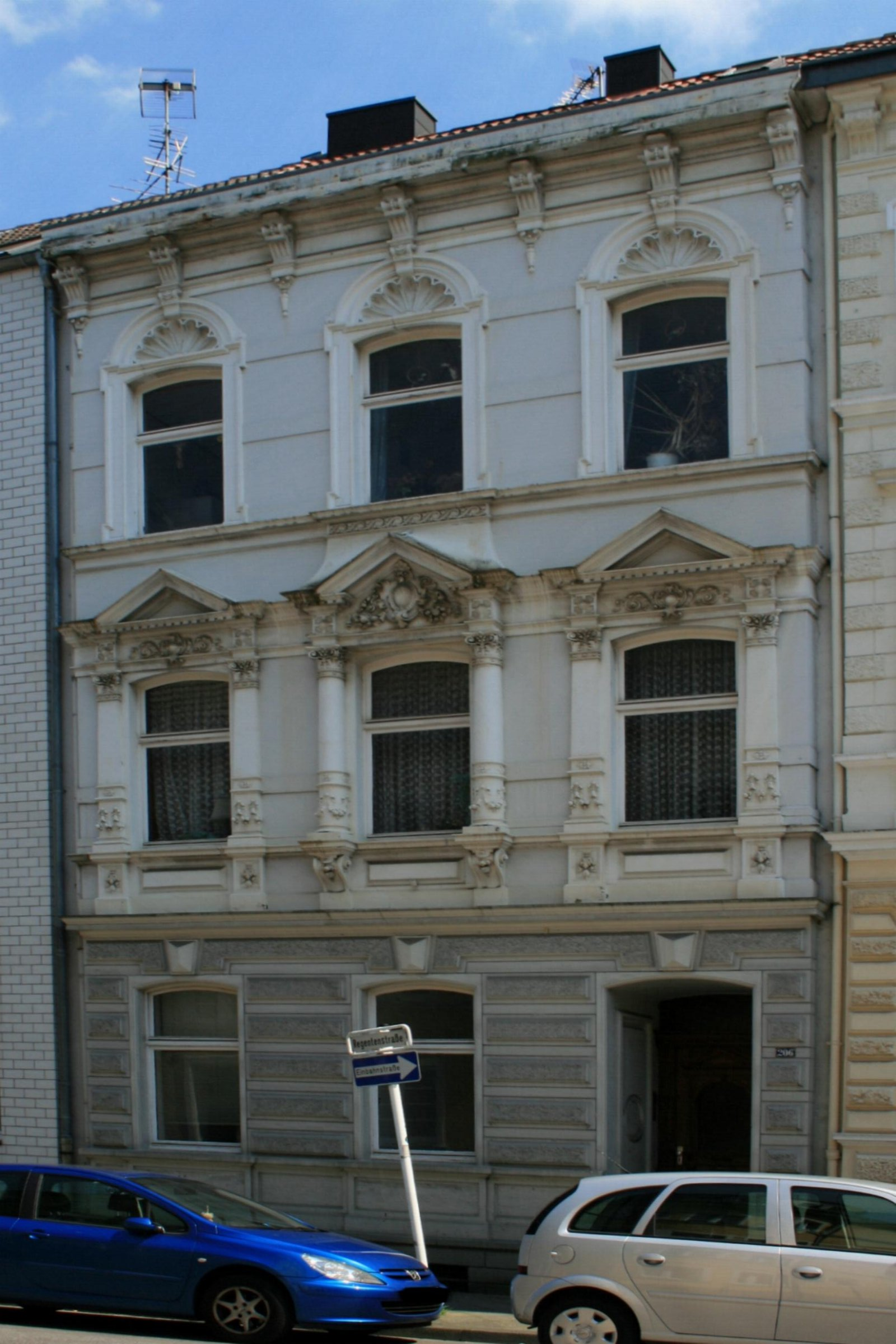 Cultural heritage monument No. R 005 in Mönchengladbach